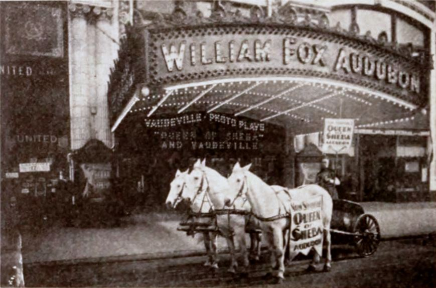 The Audobon Theater of Washington Heights, New York, showing the American drama film The Queen of Sheba (1921) and using a chariot as a promotion, on page 50 of the December 17, 1921 Exhibitors Herald.